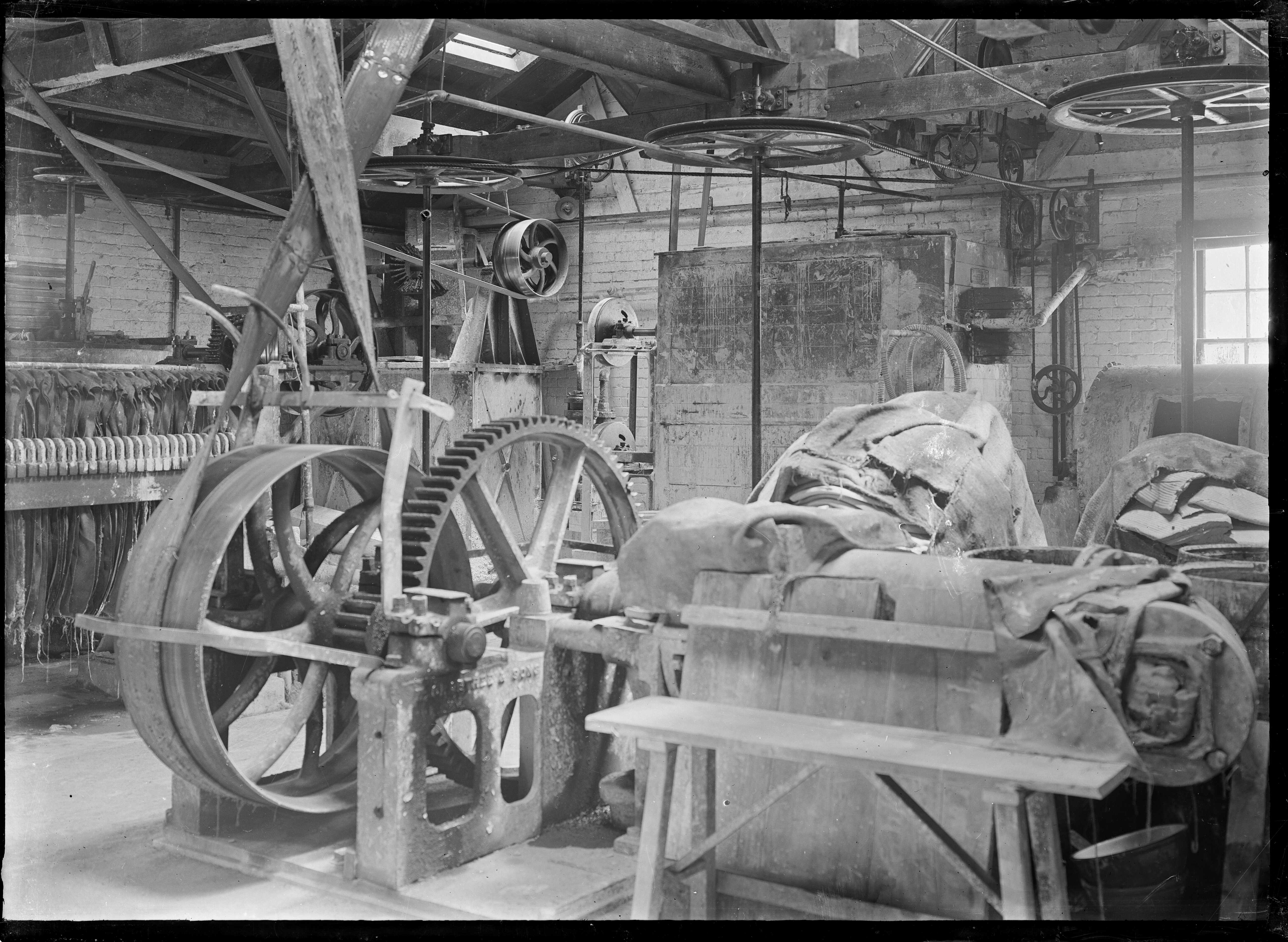 Interior view of McSkimming & Son brickworks and pipeworks at Benhar, Otago. Photograph taken by Albert Percy Godber in 1926.